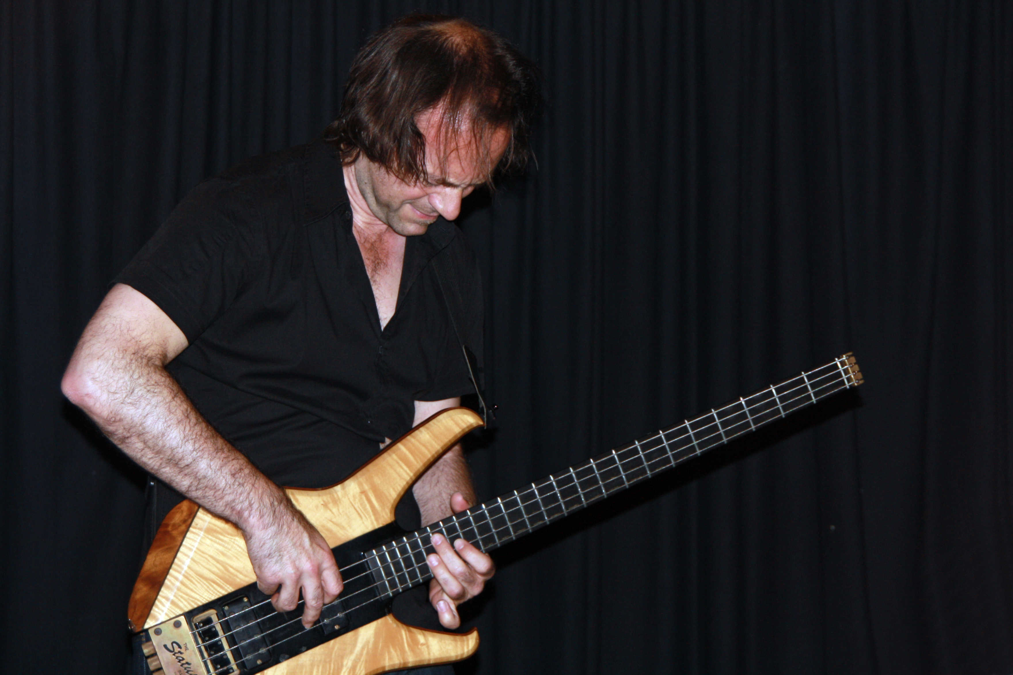 Jazz bassist Marino Pliakas from Switzerland at Club W71.